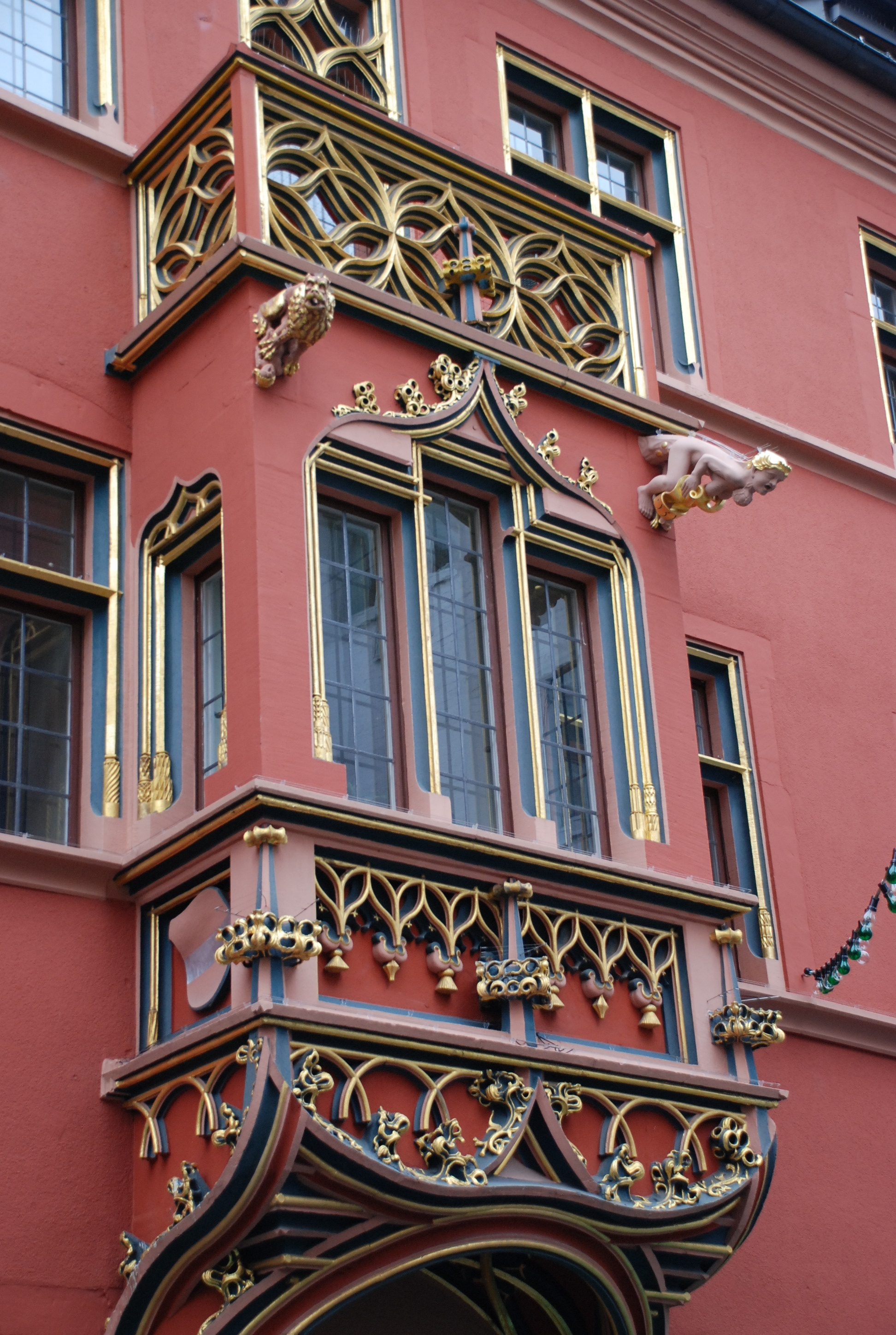 This is the so called "Haus zum Walfisch" completed in 1515 by Jakob Villinger von Schönenberg, treasurer of the emperor of the Holy Roman Empire Maximilian I. The building was the scenery of "Suspiria", a 1977 Italian horror film directed by Dario Argento.